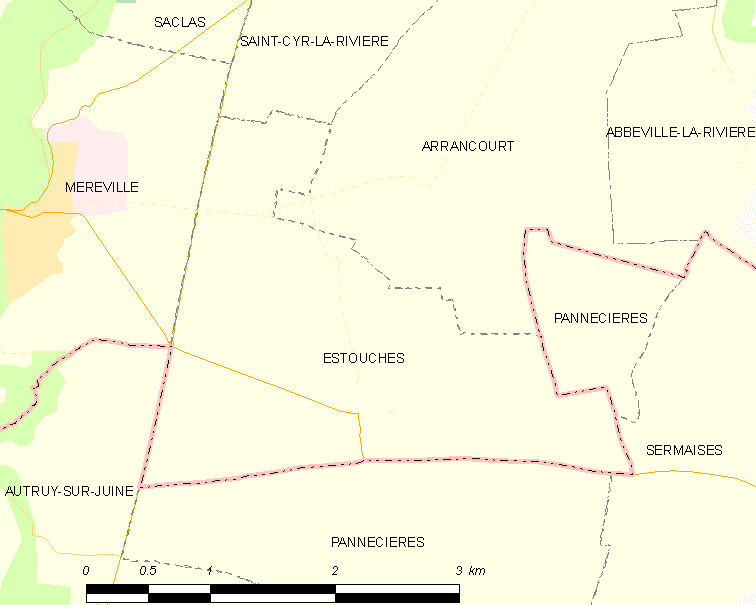 Map of French municipality Estouches